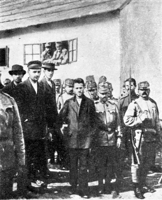 Gavrilo Princip and the others are brought to the court.